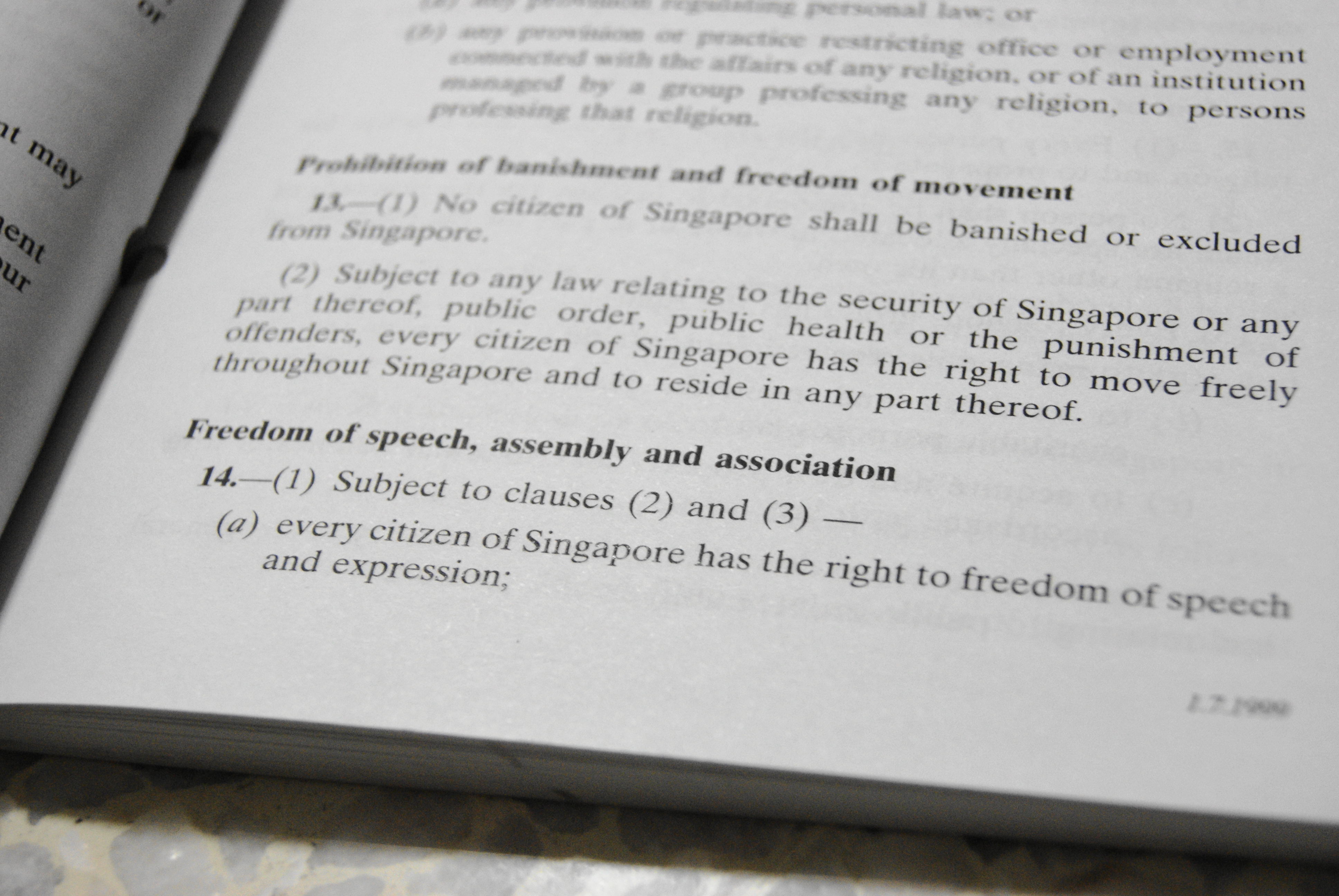 Article 14(1)(a) of the Constitution of the Republic of Singapore (1999 Reprint).